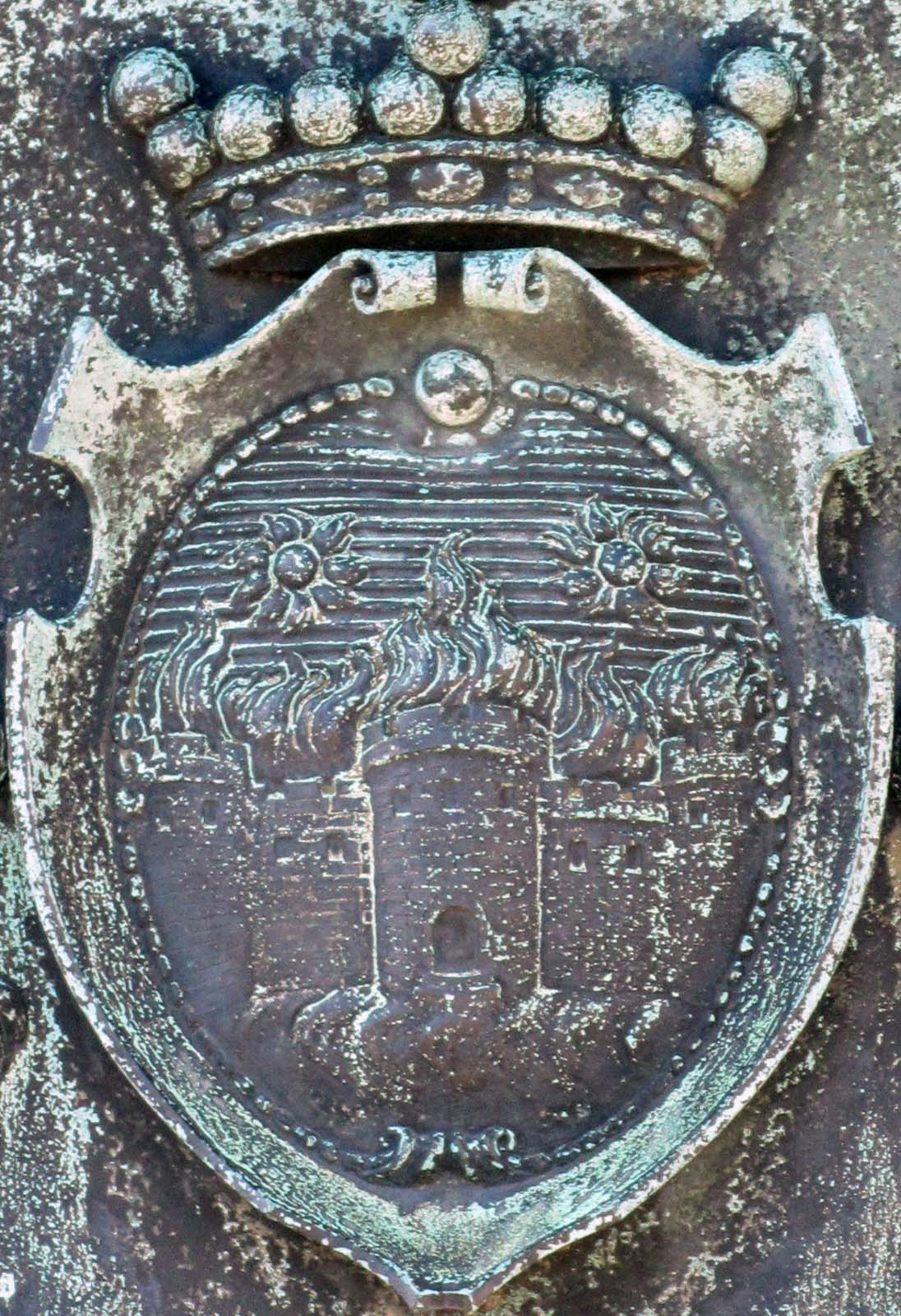 The coat of arms of of Kexholm County. The Russian version on the pedestal of the statue of Emperor Alexander II (1894) in Helsinki.